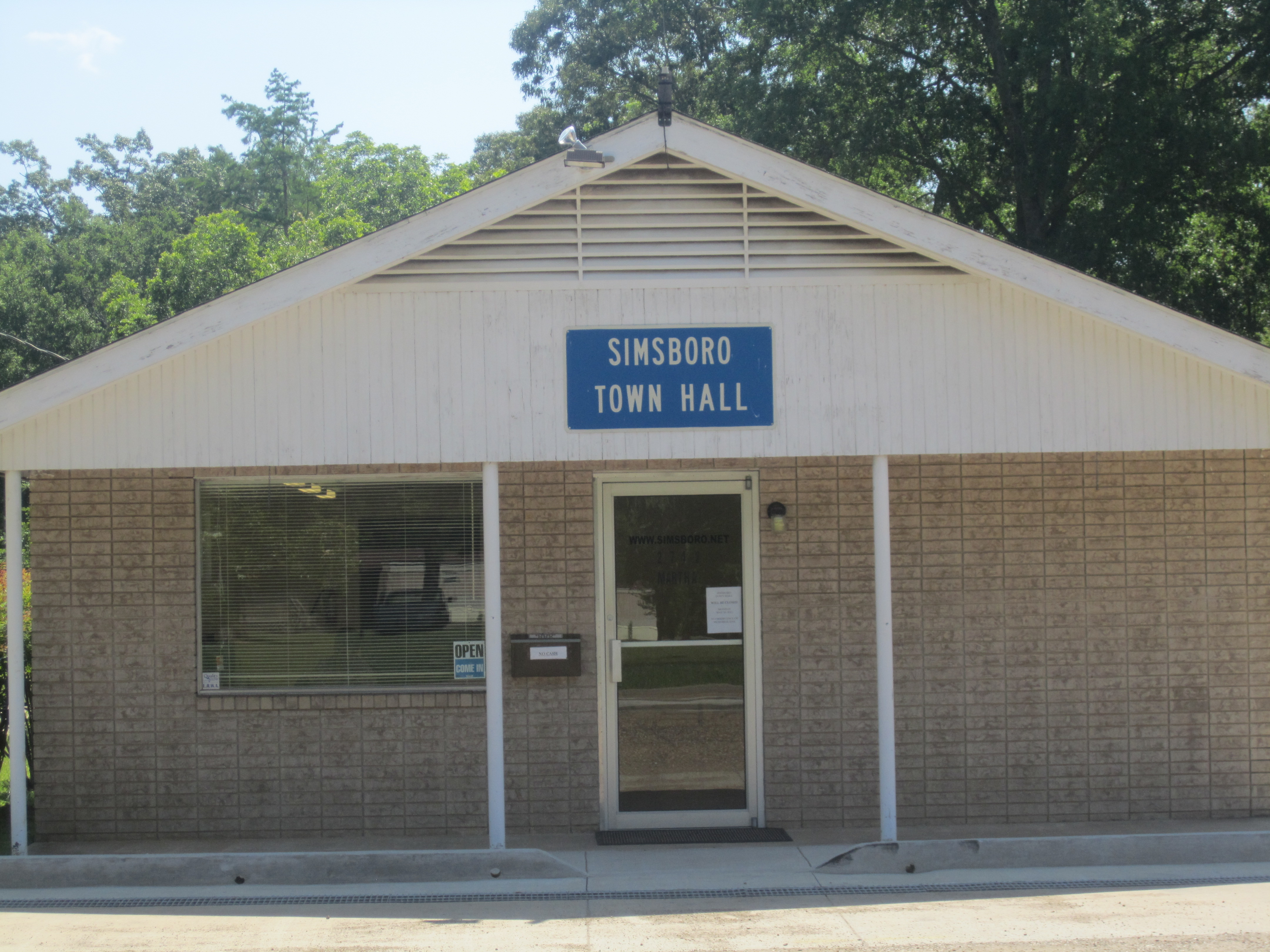 I took photo in Simsboro, LA, with Canon camera. It is the town hall. The previous picture is crooked.